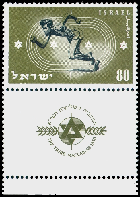 Israeli postal stamp commemorating the Third Maccabiah Games held in 1950 - 80 mil